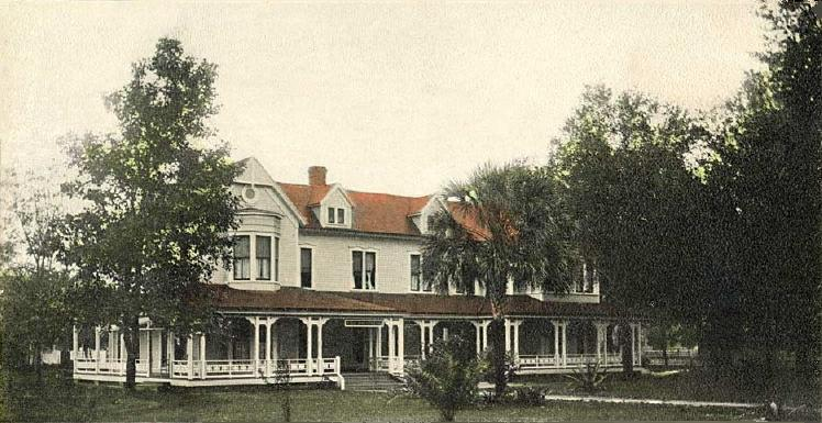 The Wyoming Hotel, Orlando, FL; from a c. 1905 postcard published by E. C. Kropp, Milwaukee, Wisconsin.